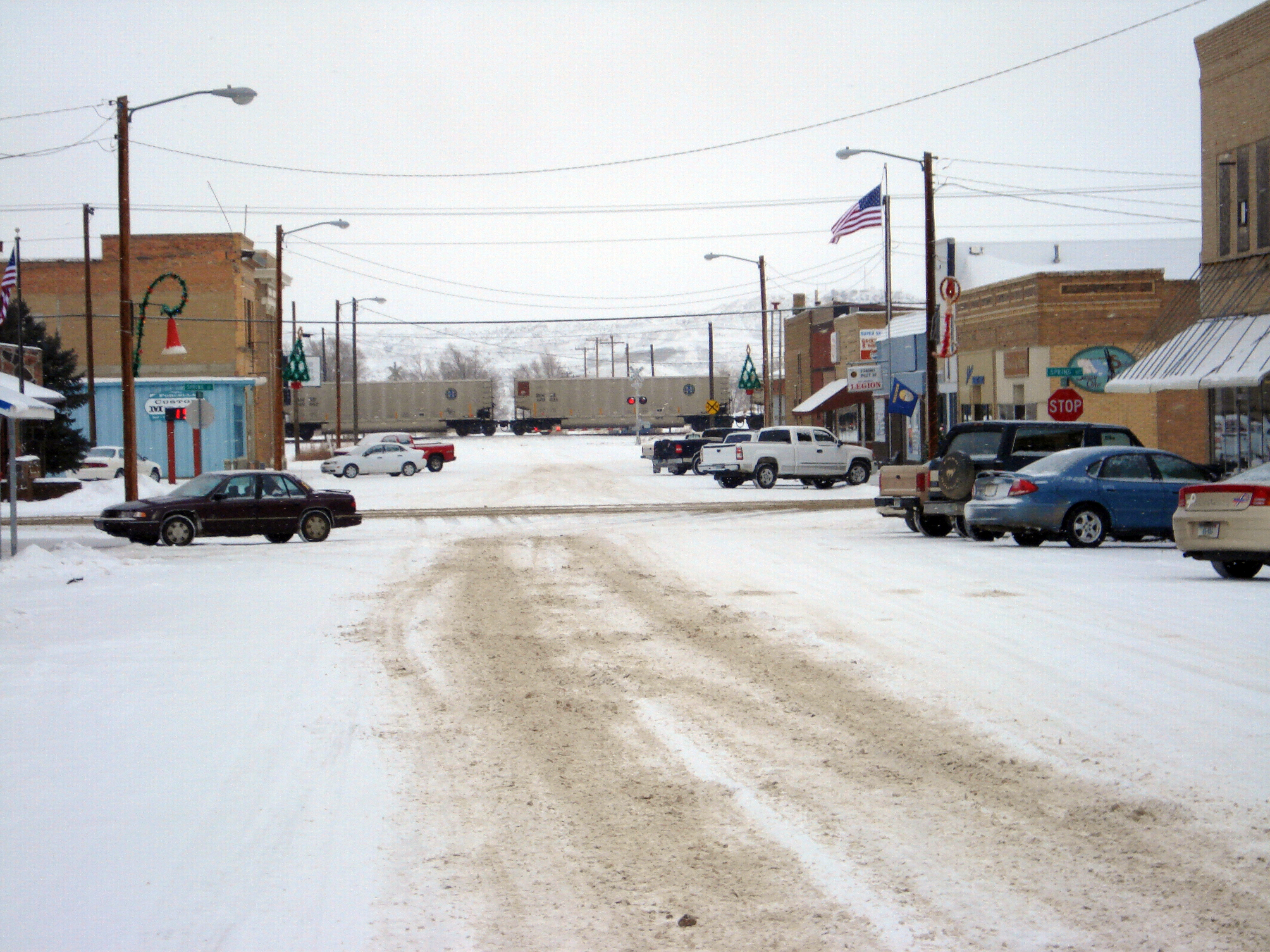 A view down Logan Avenue in Downtown Terry, Montana during a typical snowy day.